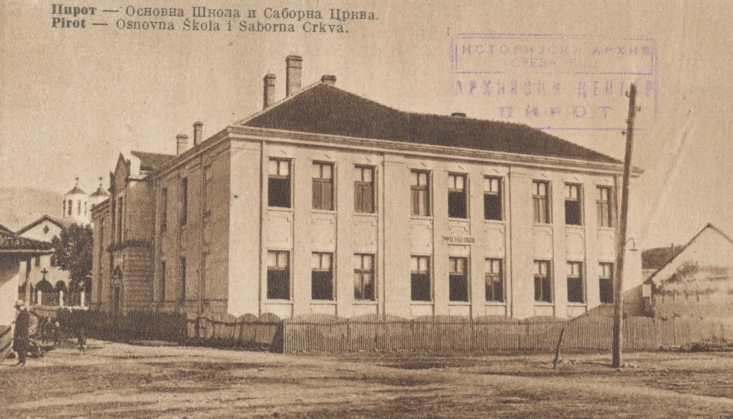 Postcard from Pirot - Church and elementary school in Tijabara